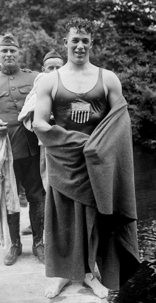 Picture of Norman Ross